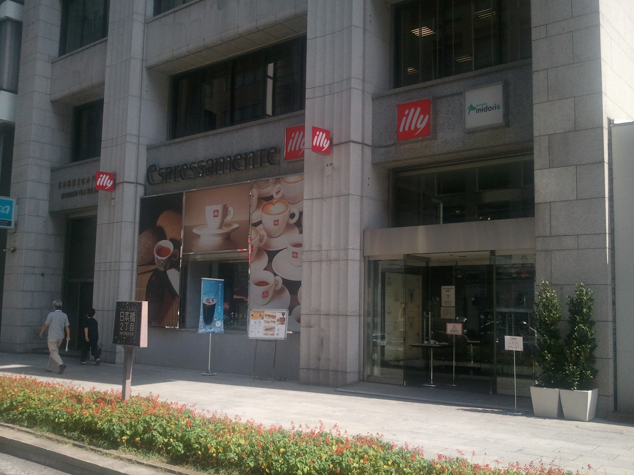 espressamente illy in Nihonbashi, Tokyo, Japan.